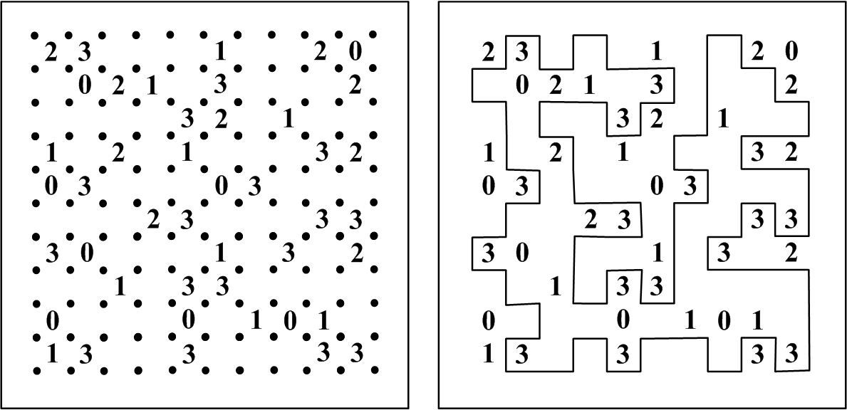 Slitherlink - task by Asukoru